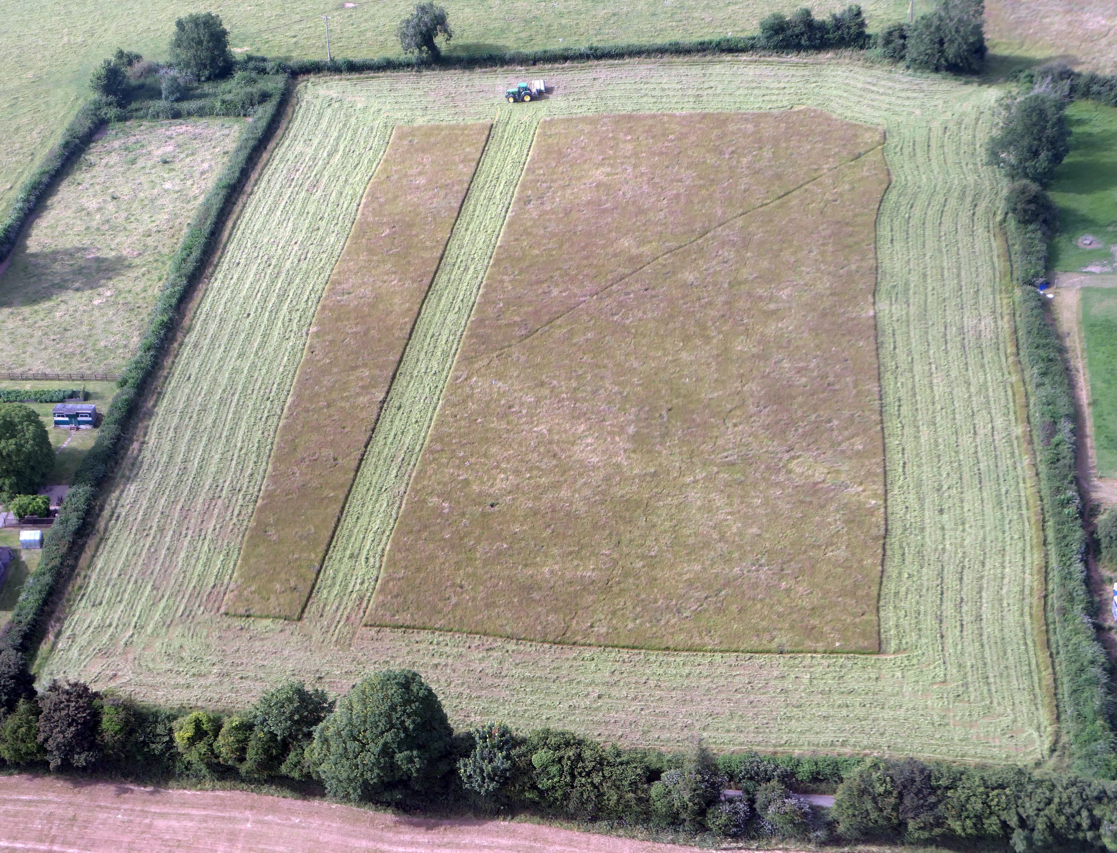 An aerial view of a field in which a farmer is making hay using a tractor.